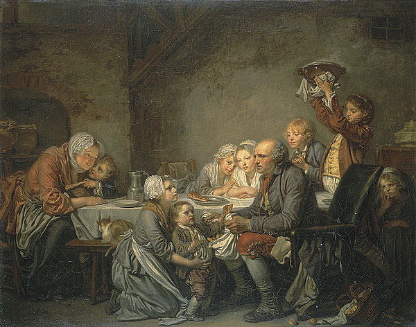 Shows King cake tradition.